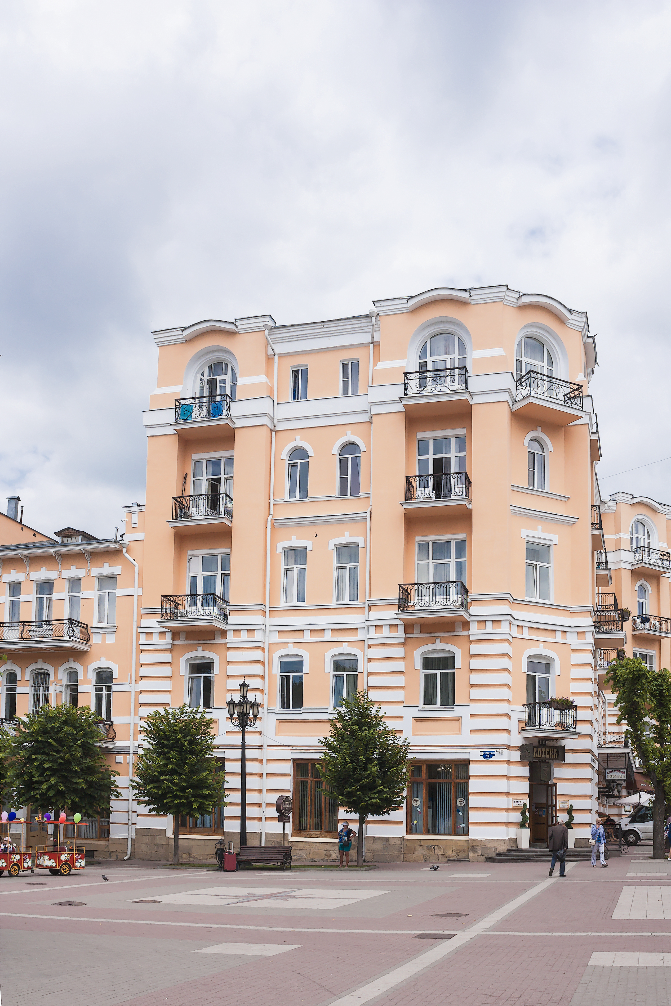 Hotel Grand hotel; Resort Boulevard, 19, Kislovodsk, Stavropol Krai